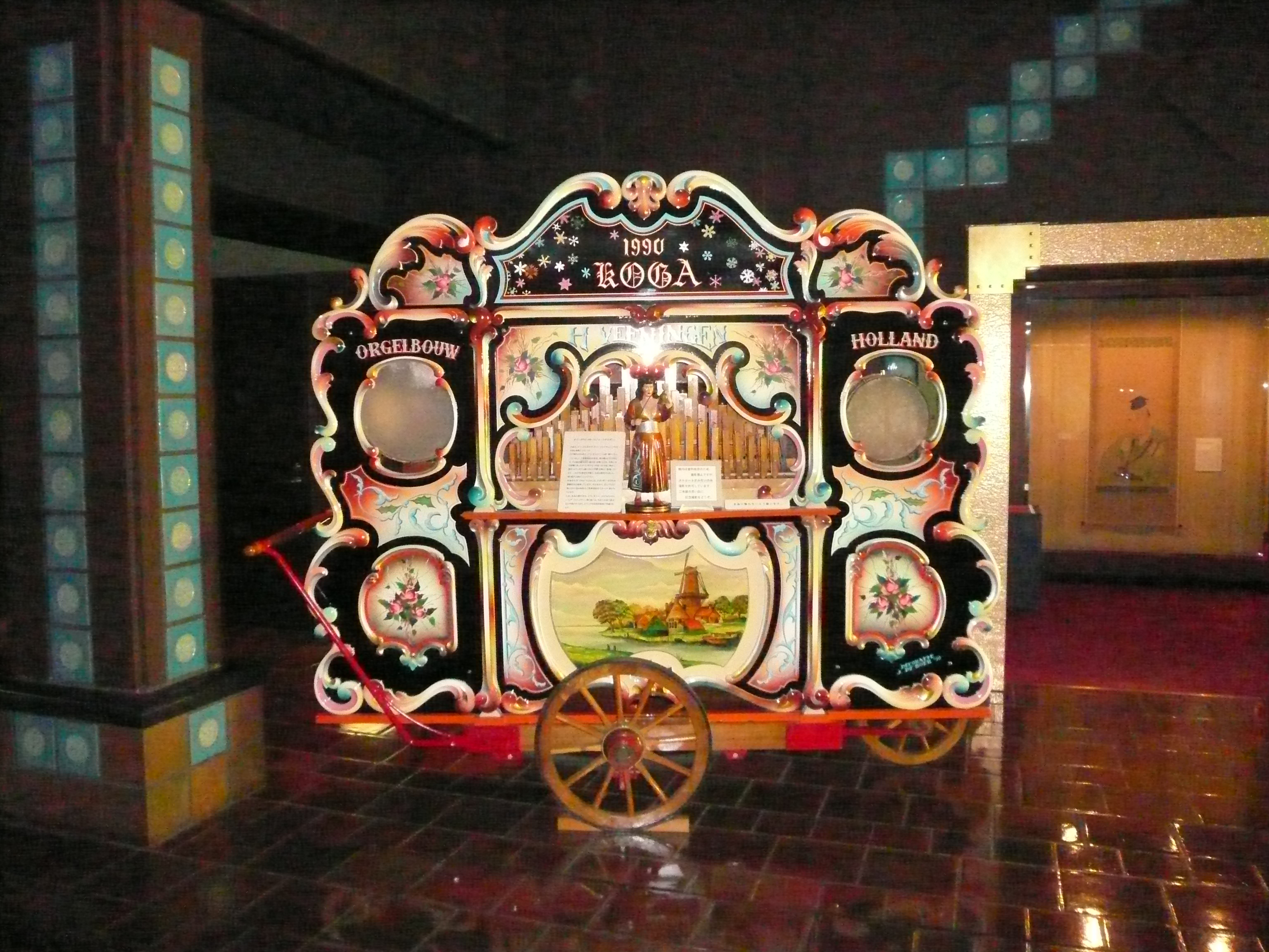 Street Organ (Koga History Museum), Koga, Ibaraki, Japan